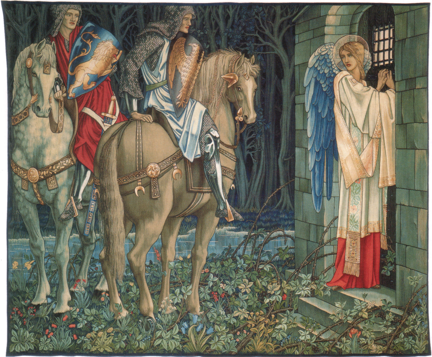 The Failure of Sir Gawaine: Sir Gawaine and Sir Uwaine at the Ruined Chapel, Number 4 of the Holy Grail tapestries woven by Morris & Co. 1891-94 for Stanmore Hall. This version woven by Morris & Co. for Lawrence Hodson of Compton Hall 1895-96. Wool and silk on cotton warp. Birmingham Museum and Art Gallery.